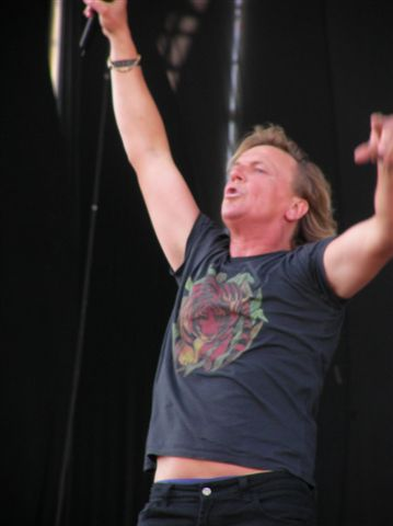 Pretty Maids